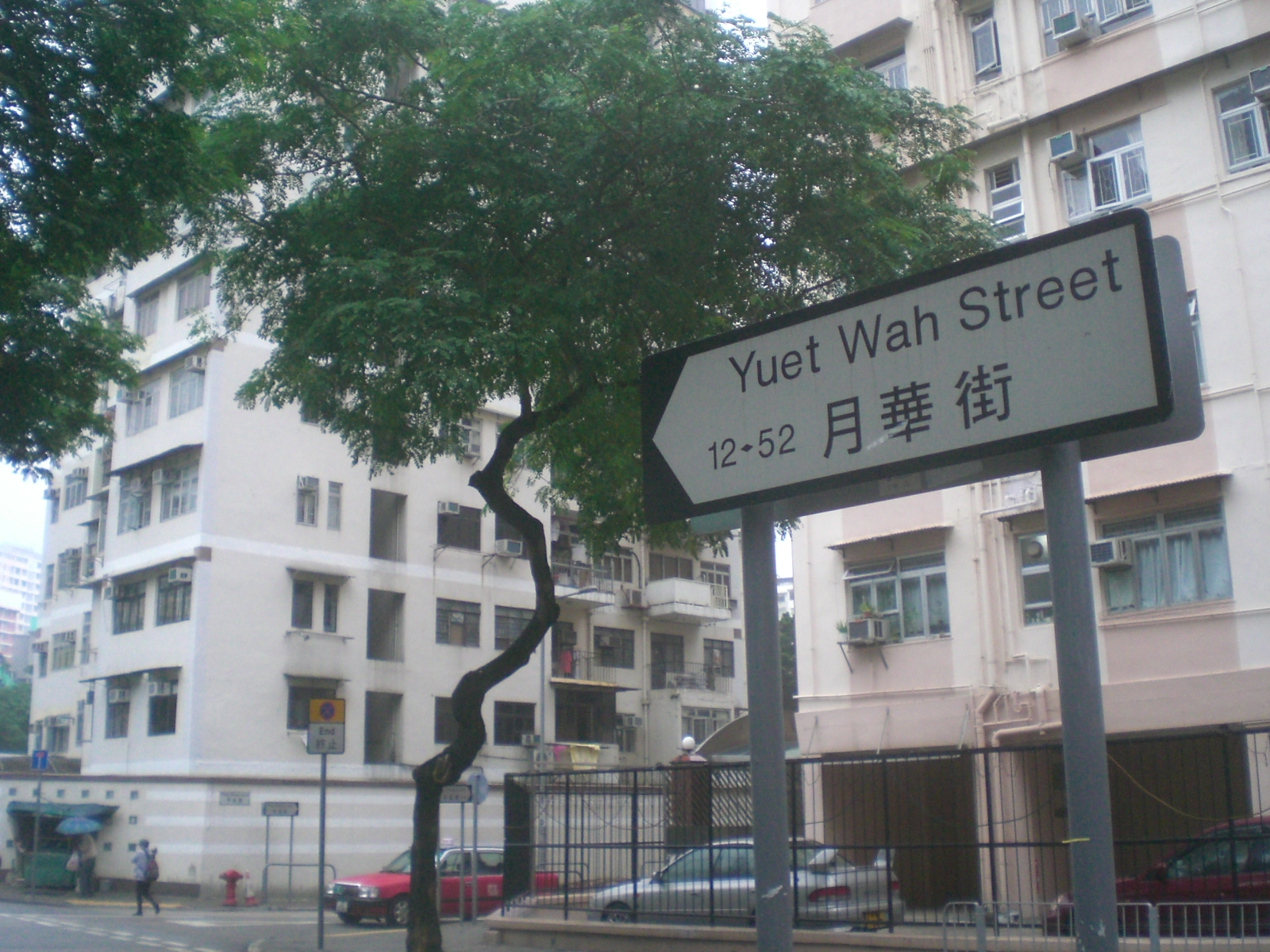 觀塘月華街